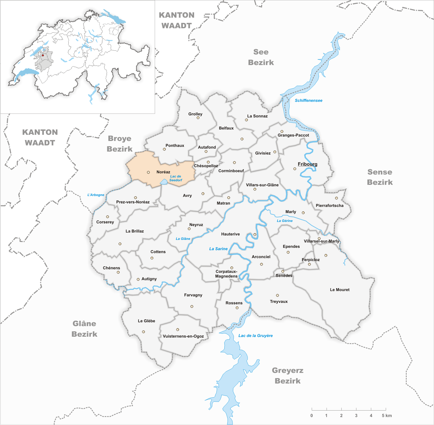 Municipality Noréaz